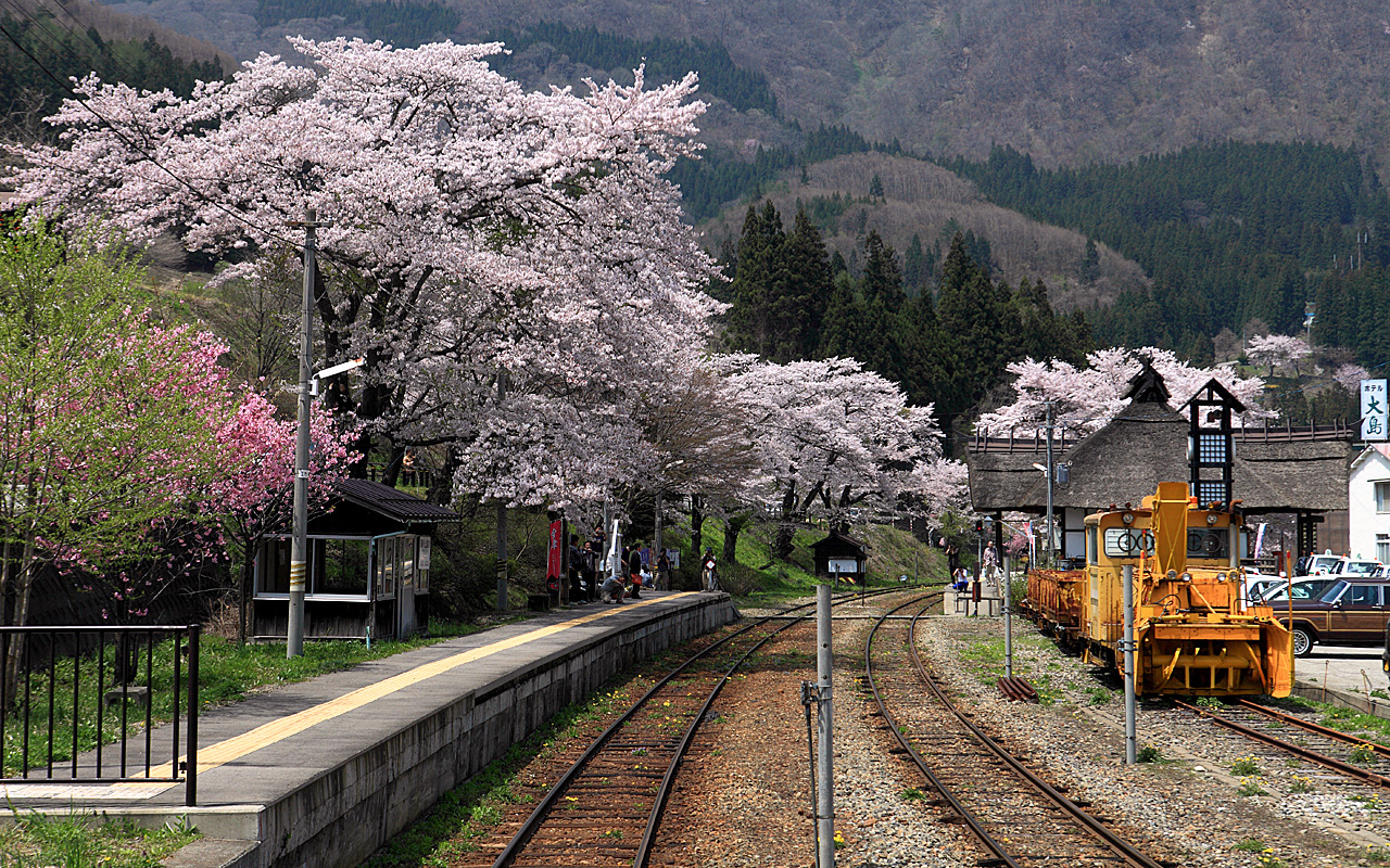 Aizu Railway Yunokami-Onsen Station